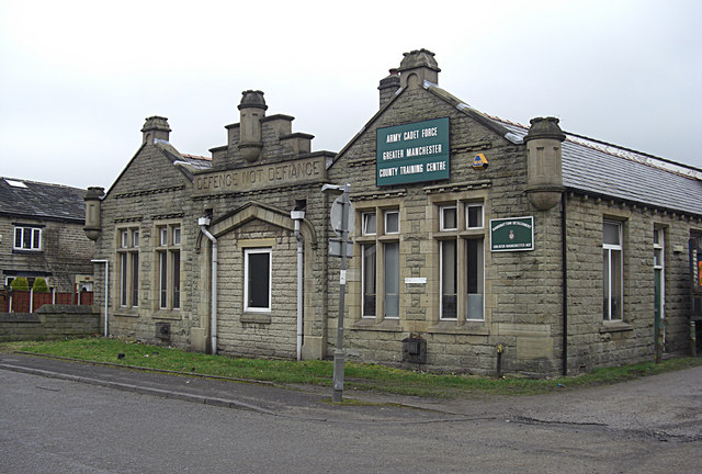 Army Cadet Training Centre, Ramsbottom Situated at the northern end of Crow Lane.